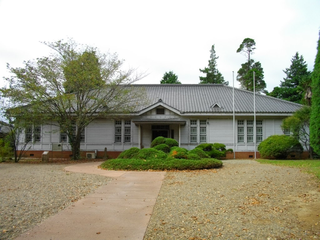 Former Shimofusa Imperial Stock Farm Office